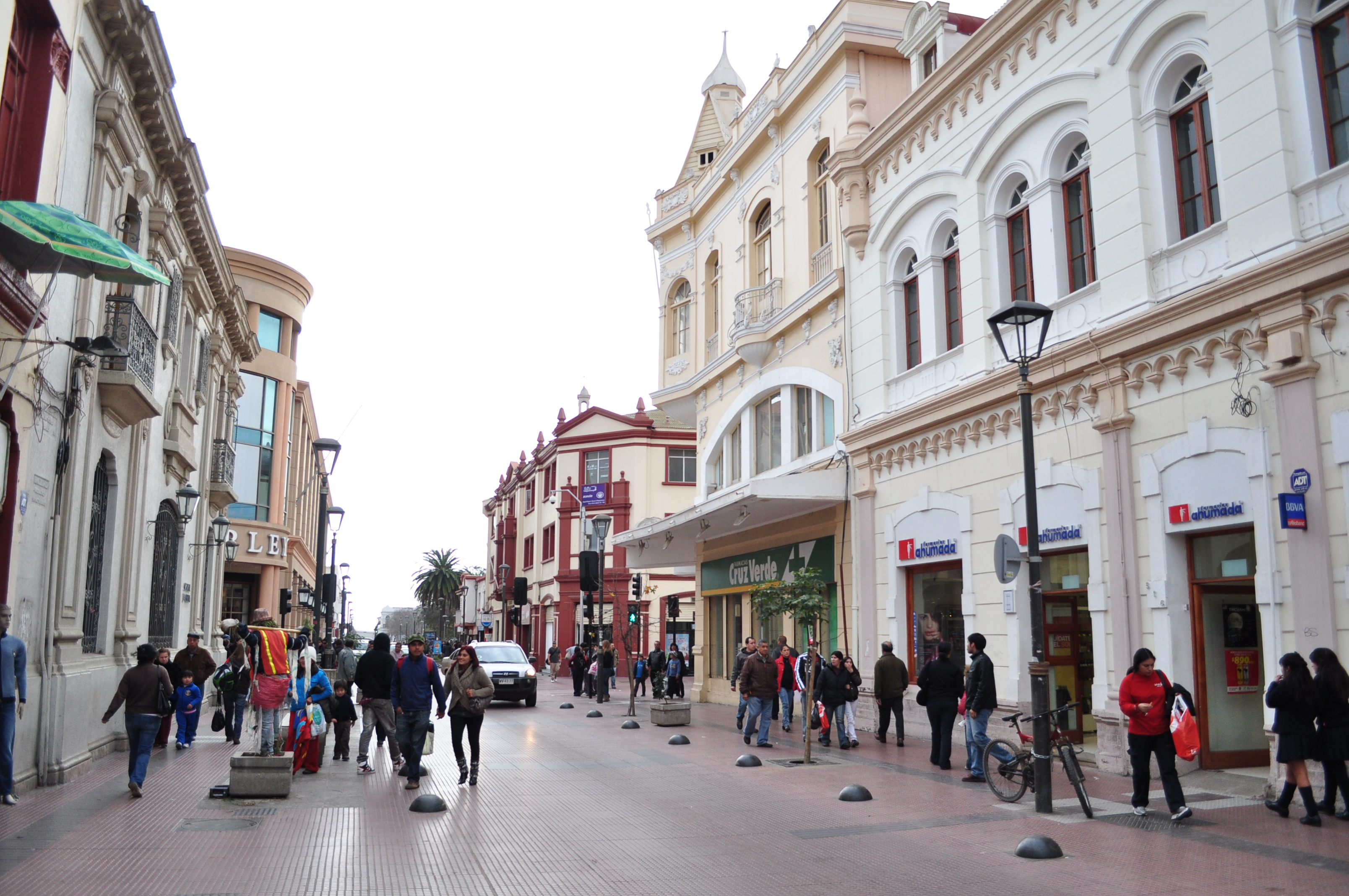 This is a photo of a national monument in Chile: 602